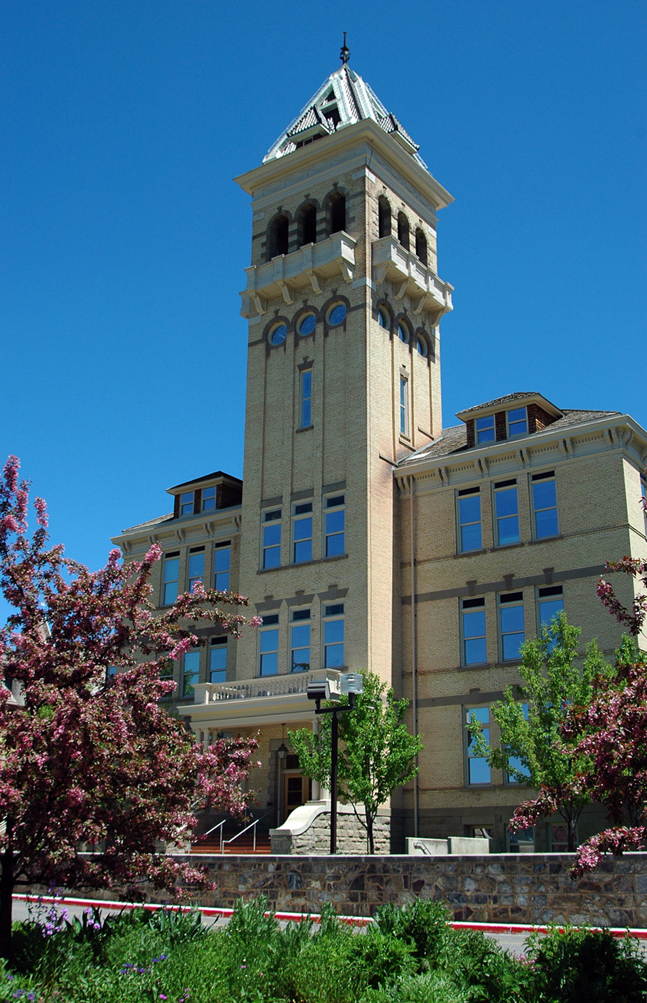 Old Main building at Utah State University, Logan Utah Object location41° 44′ 27″ N, 111° 48′ 47″ W